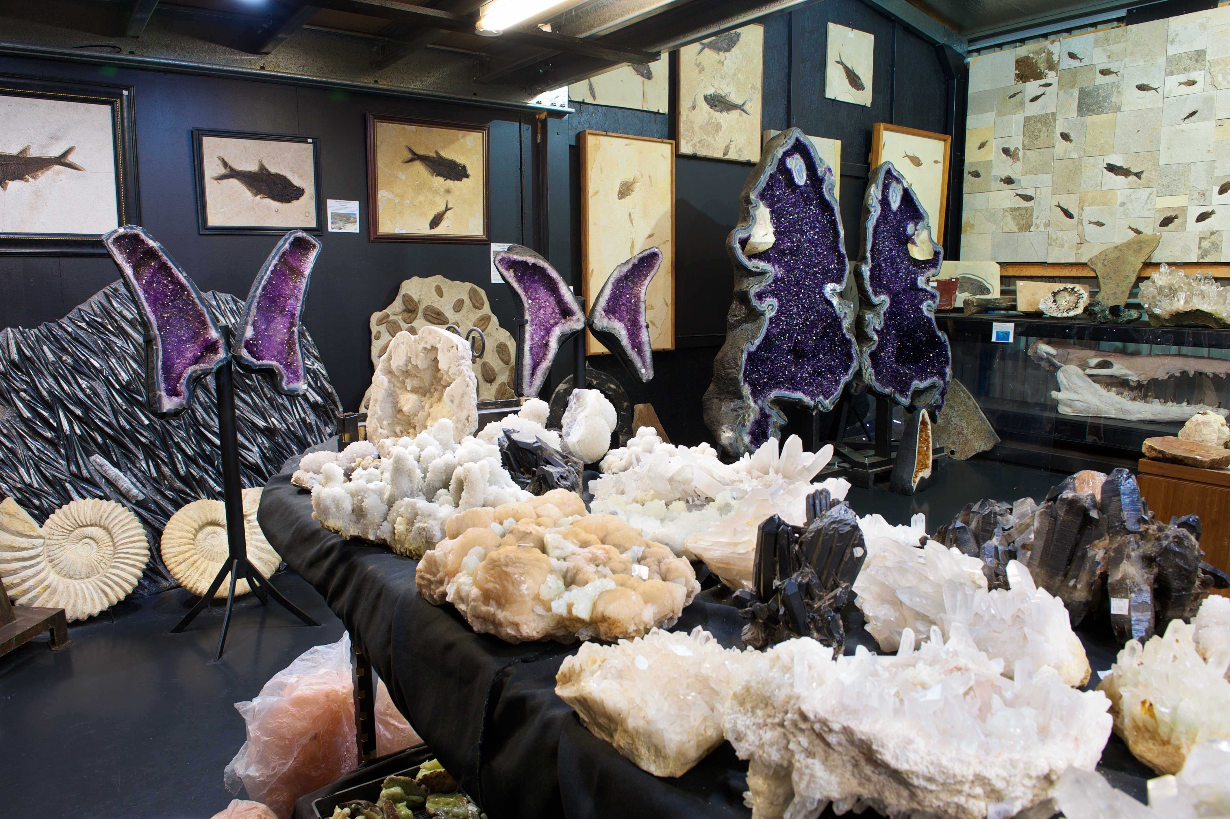 Photo of Crystal World & Prehistoric Journeys exhibition centre, showcasing their 10ft tall amethyst geodes among other crystal, fossil and mineral specimens for display or sale.